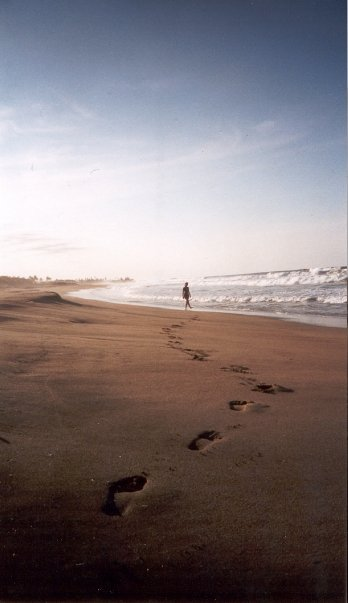 Sunset over La Marina in Hatillo, PR